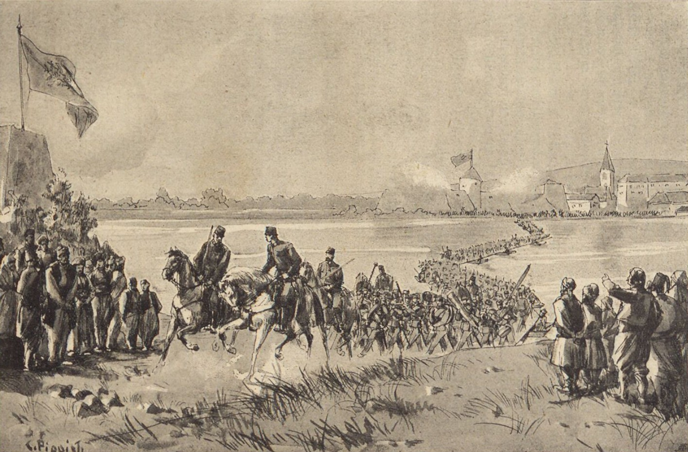 Crossing of river Sava by 17th Infantry Regiment